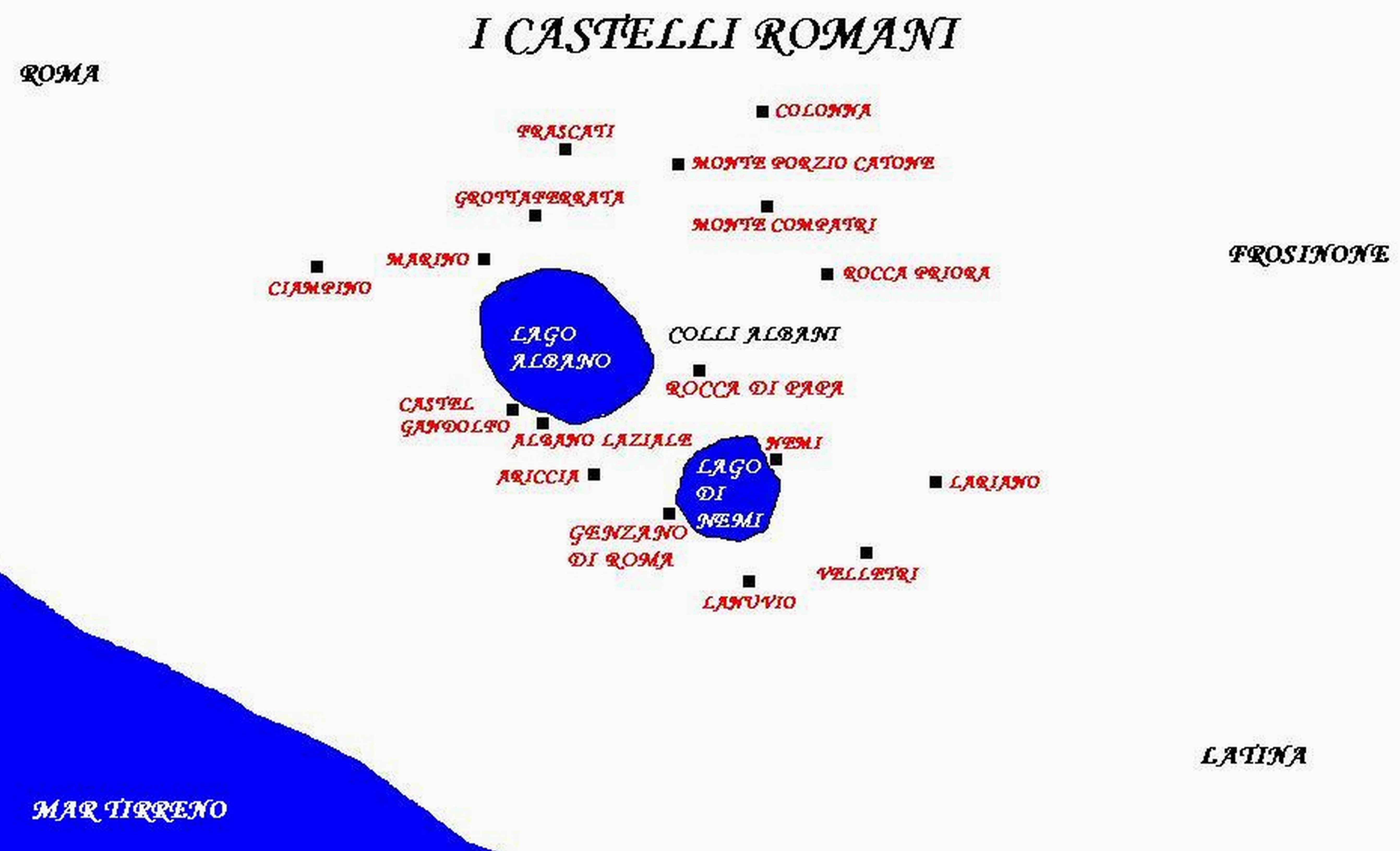 Castelli Romani map